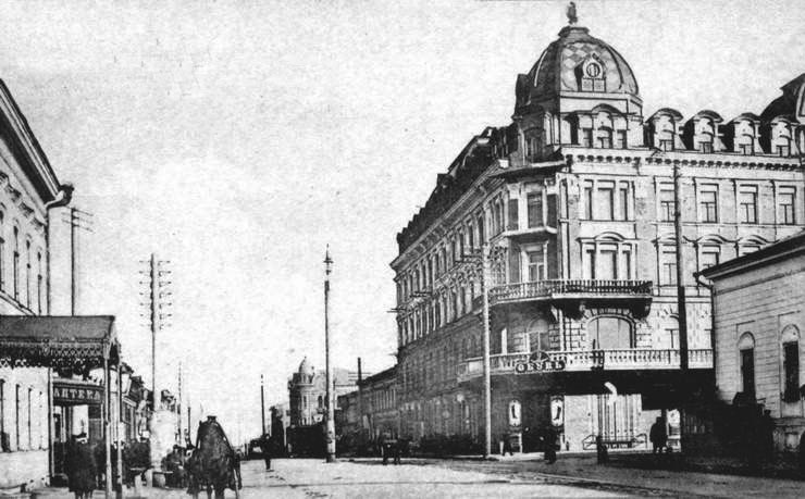 Panskaya Street in Samara, pre-1917 posrcard Flickr data on 2011-08-13 Tags: Old picture, Street, Samara, posrcard, Russian Empire License: CC BY-SA 2.0 User: paukrus Ruslan